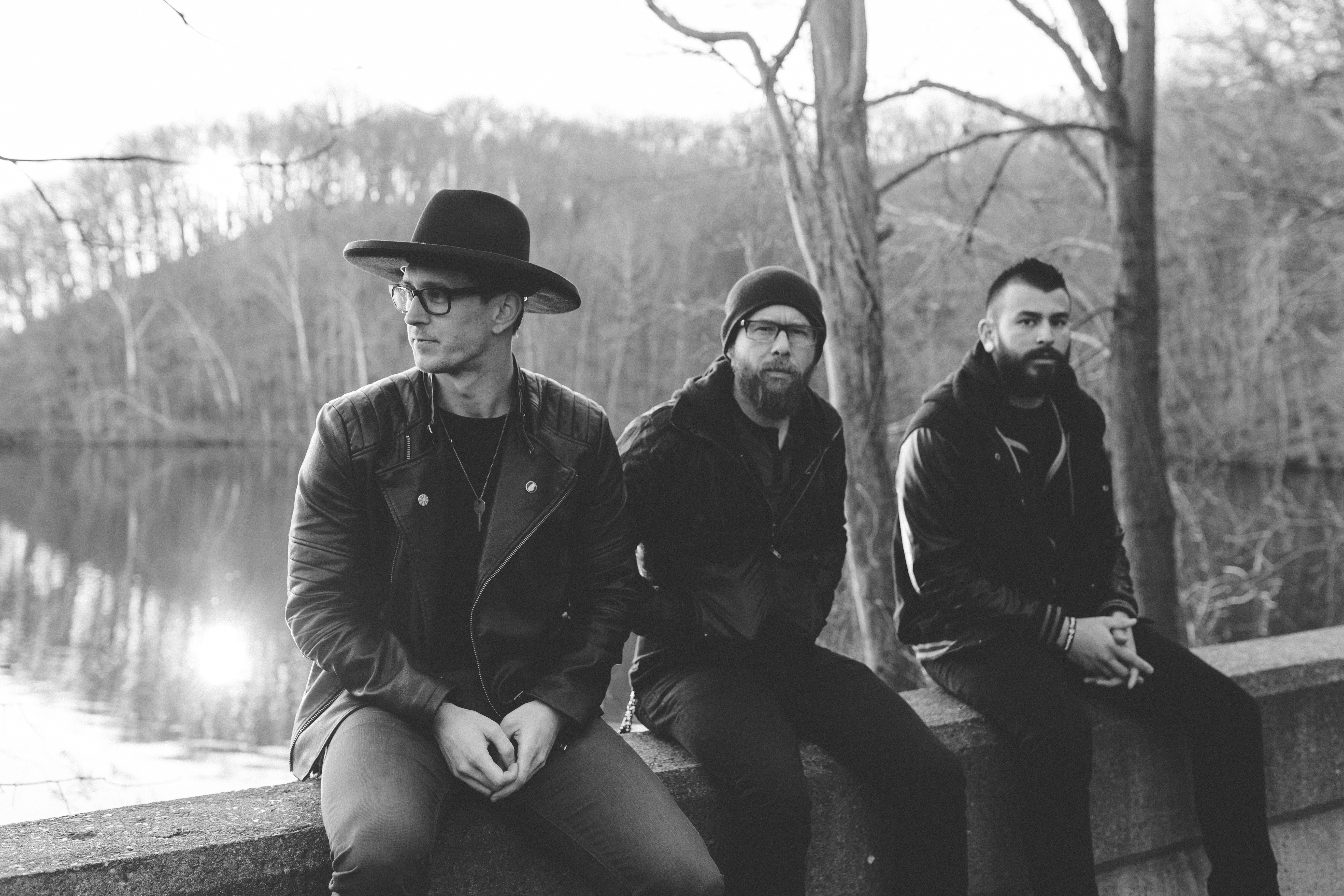 Radnor Lake